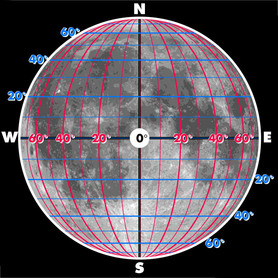 Coordinate map of the Moon. This is a bold exposition of Selenographic coordinates and is not intended to show accurate locations of lunar features. John Reid 14:11, 12 June 2006 (UTC)